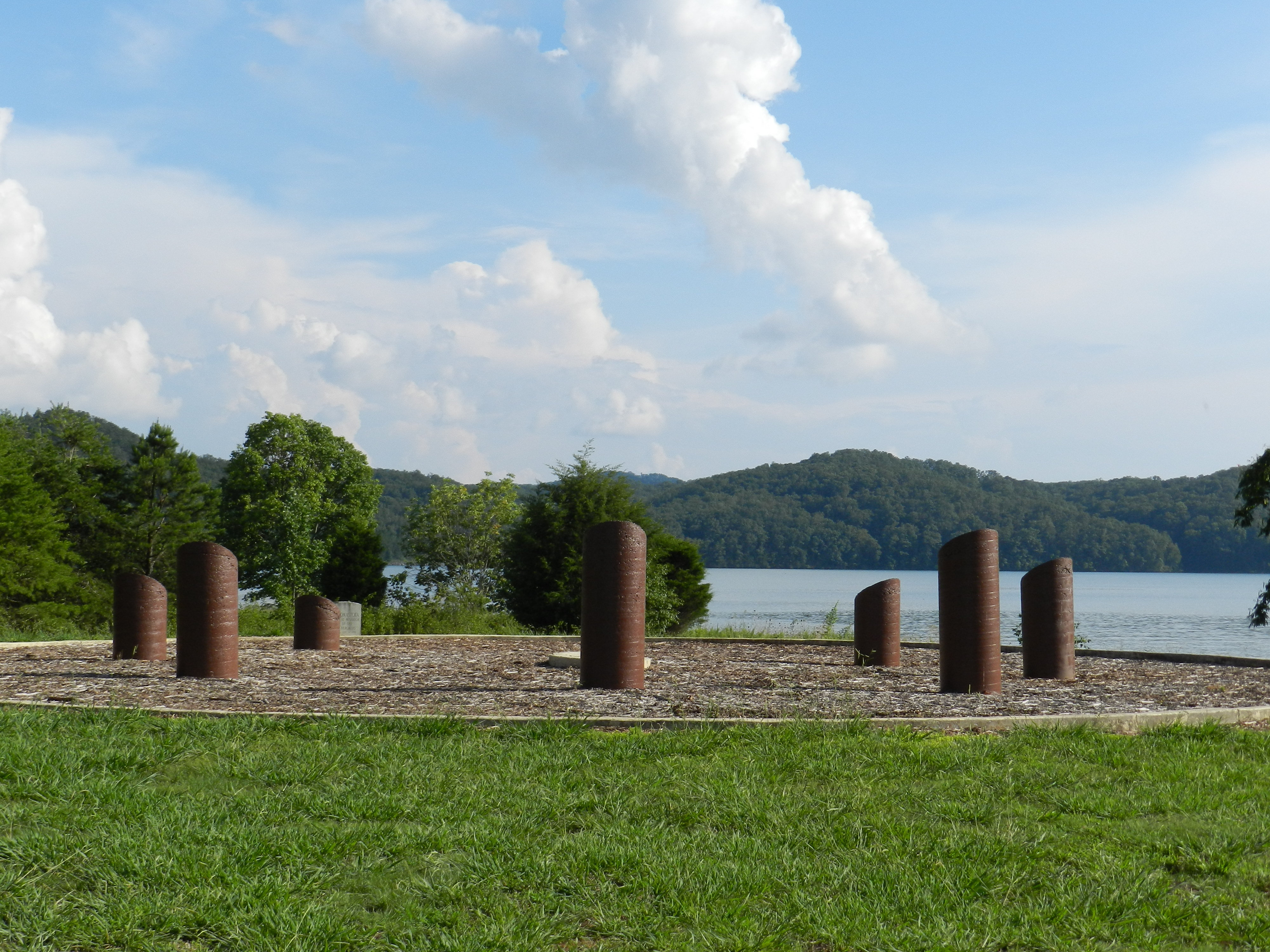 The Monument of Chota, Cherokee Village and Capital in Monroe County, Tennessee